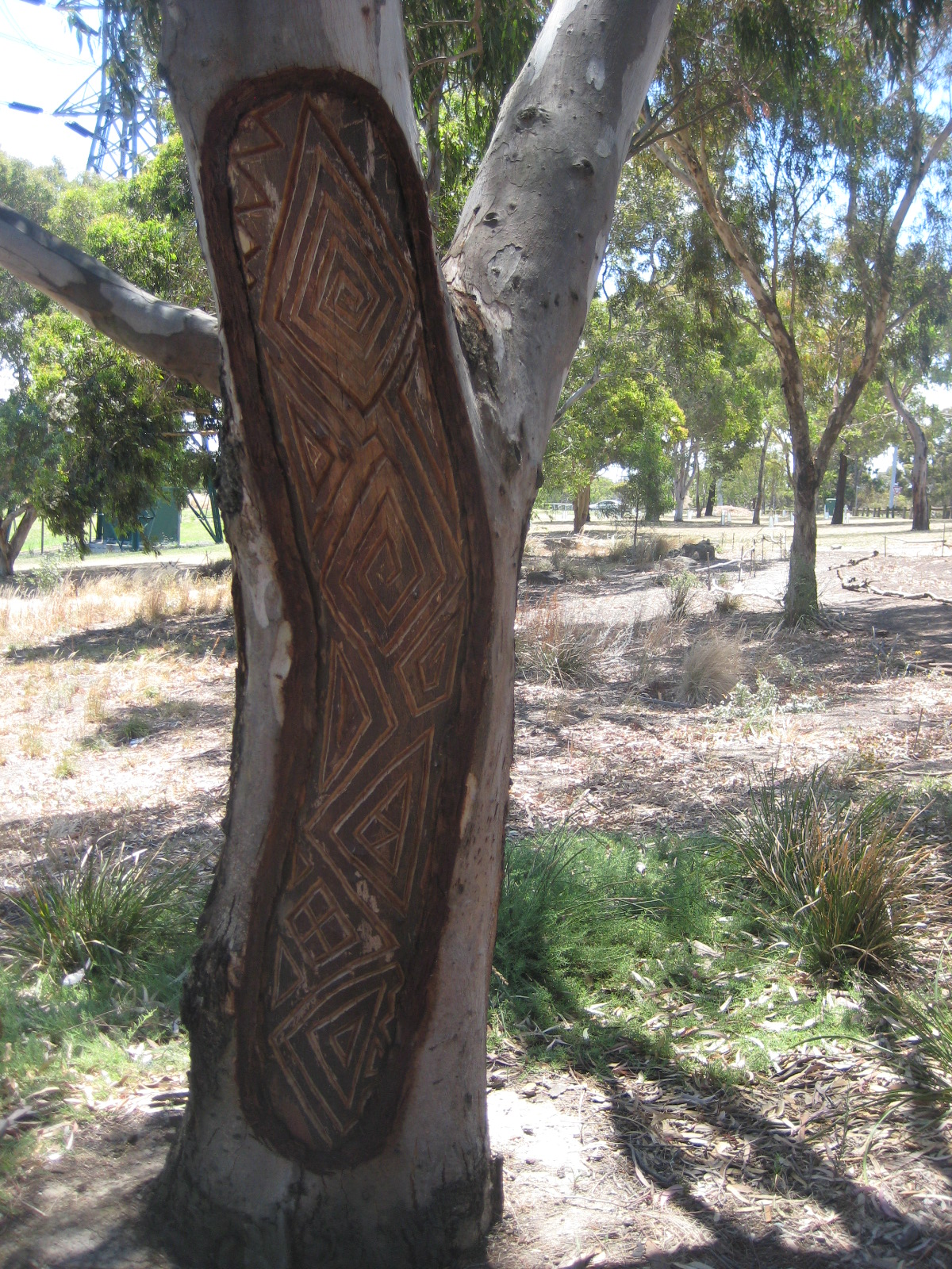 Scar tree, located on the Merri Creek Coburg, south of Murray Road, created in 2012